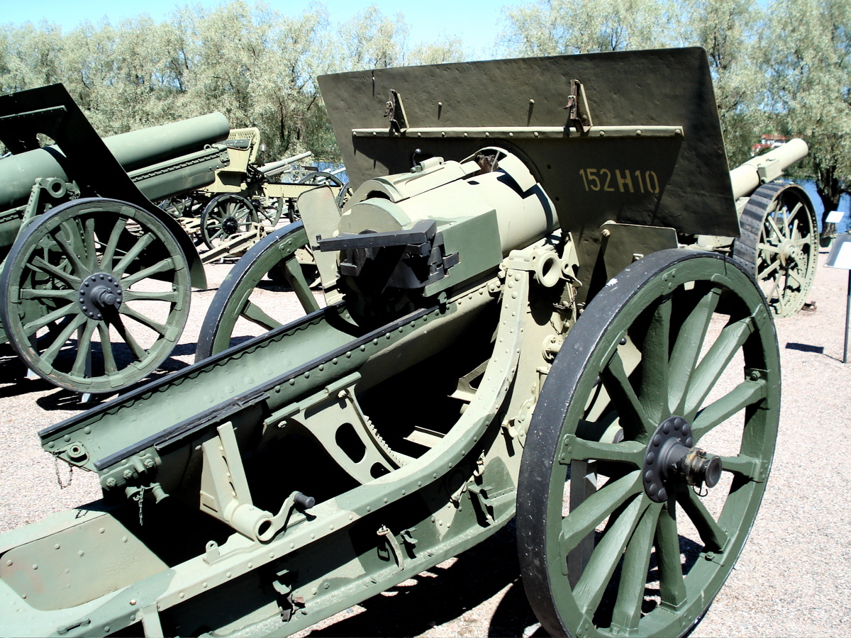 Russian 152 mm howitzer Model 1910 Schneider (6 dm polevaja gaubitsa sistemy Schneidera) , displayed in Hämeenlinna Artillery Museum. This particular gun was manufactured in Perm in 1917. Photo taken on June 18, 2006. Source: Photo by me, User:Balcer.